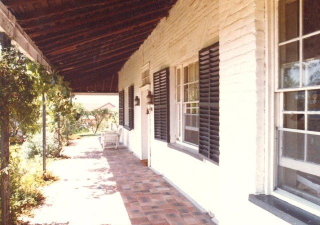 Oldholme